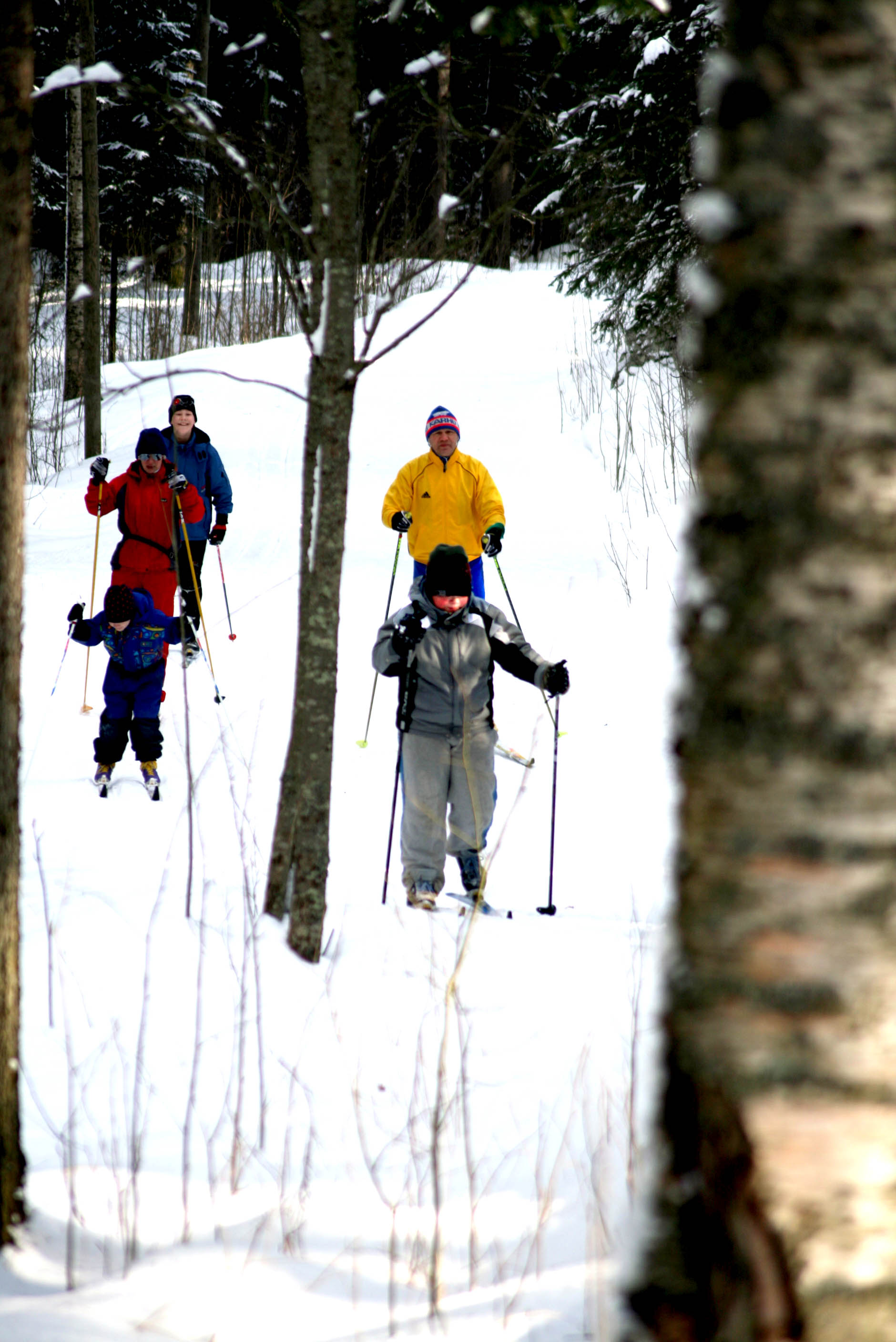 Cross-country skiers at Repokallio park in Joensuu, Finland